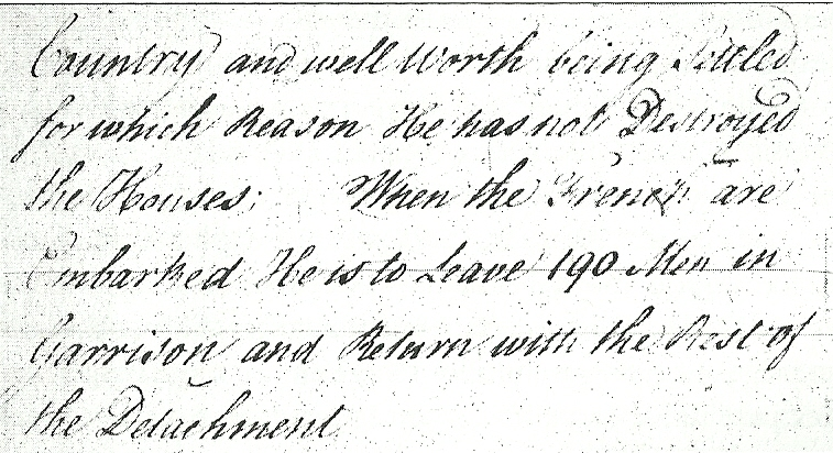 Extract of a lettre from governor Whitmore to WIlliam Pitt the Elder, dated december 6th, 1758, telling that no Acadian houses were burned on Saint-Jean Island (now Prince Edward Island). Original is kept in the National Archives of the United Kingdom.